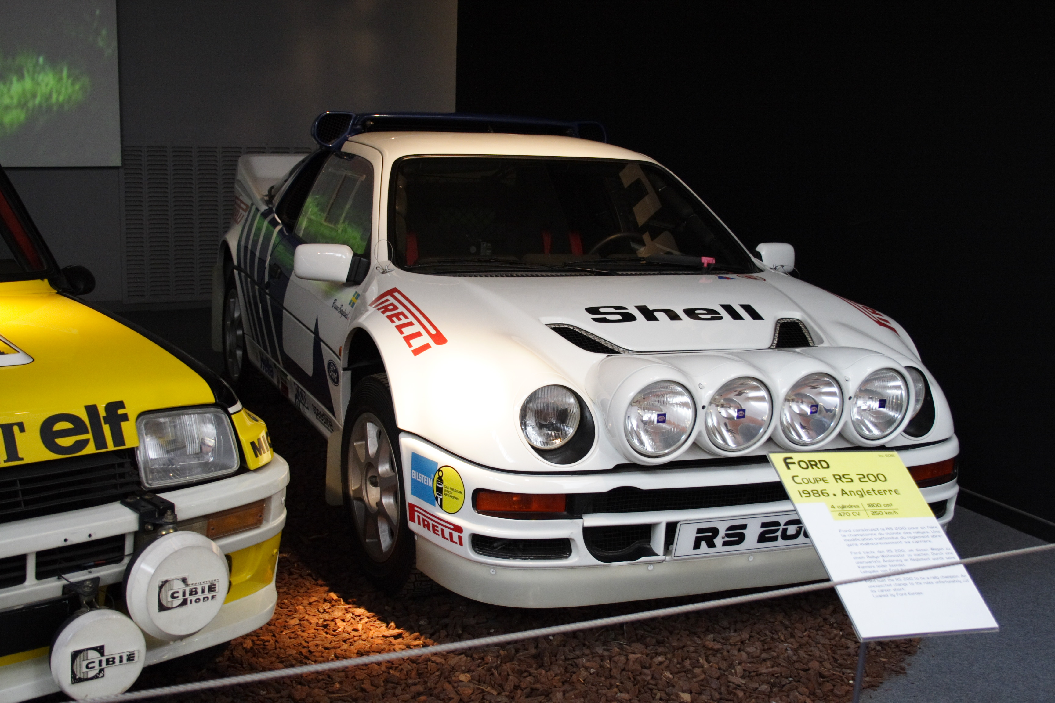 Ford RS200 1986 at the Musée National de l'Automobil(Mulhouse, France)